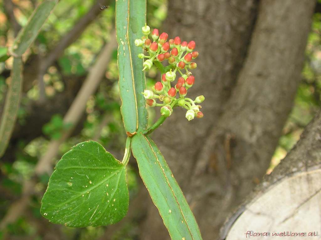 Flower of Cissus quadrangularis